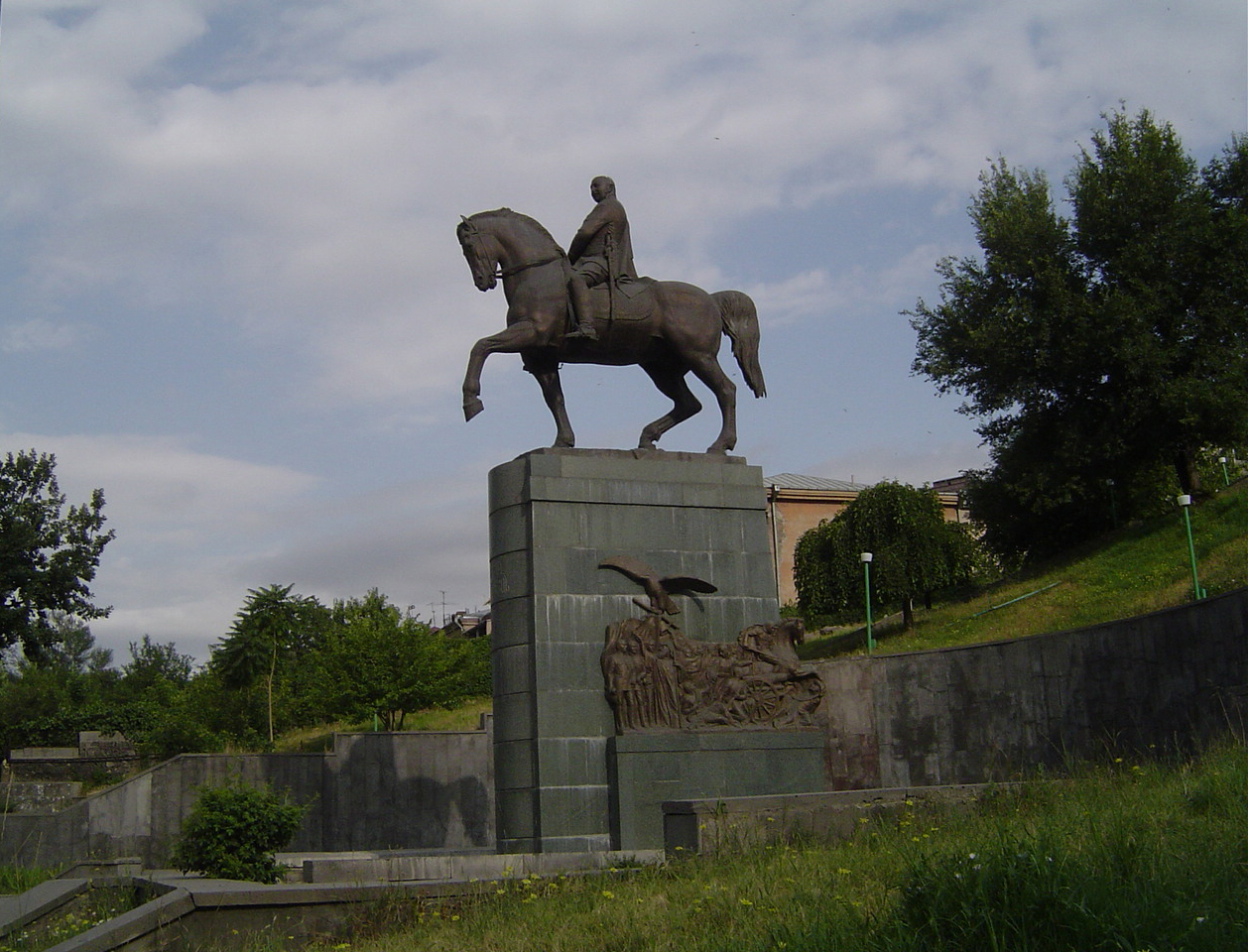 A photo of an equestrian statue of Marshal of the Soviet Union, Hovhannes Bagramyan, in Yerevan.